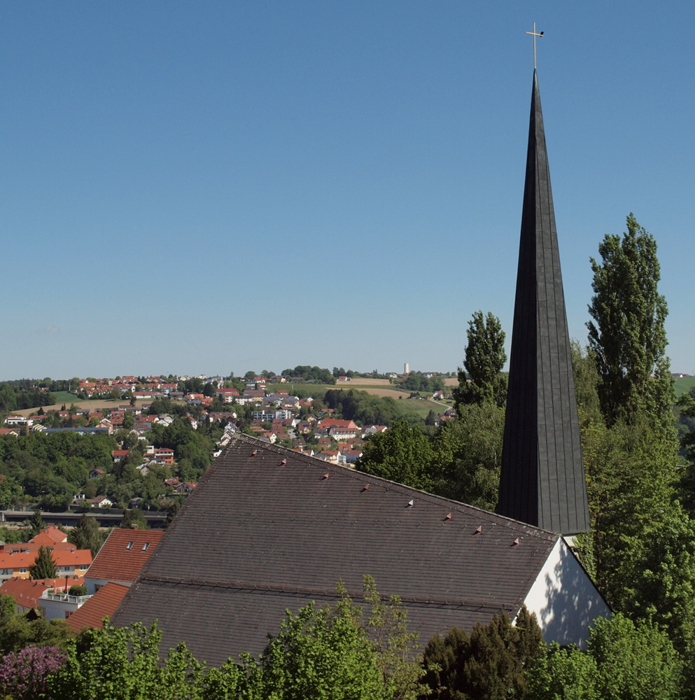 Lutheran "Friedenskirche" in Passau